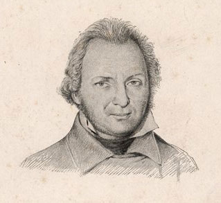 Tomasz Zan (1796–1855), a Polish poet and the cofounder of the Philomathic Society